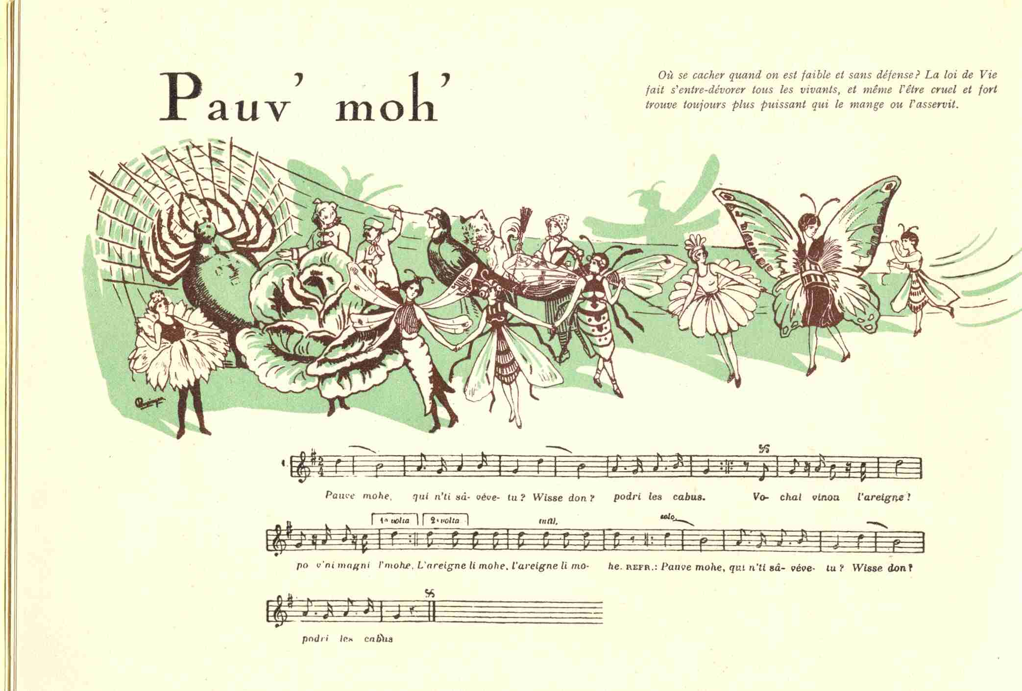 Music and text of a traditionnal walloon farandole called "cråmignon". Walon: Muzike et prumî coplet do cråmignon "Pôve moxhe"